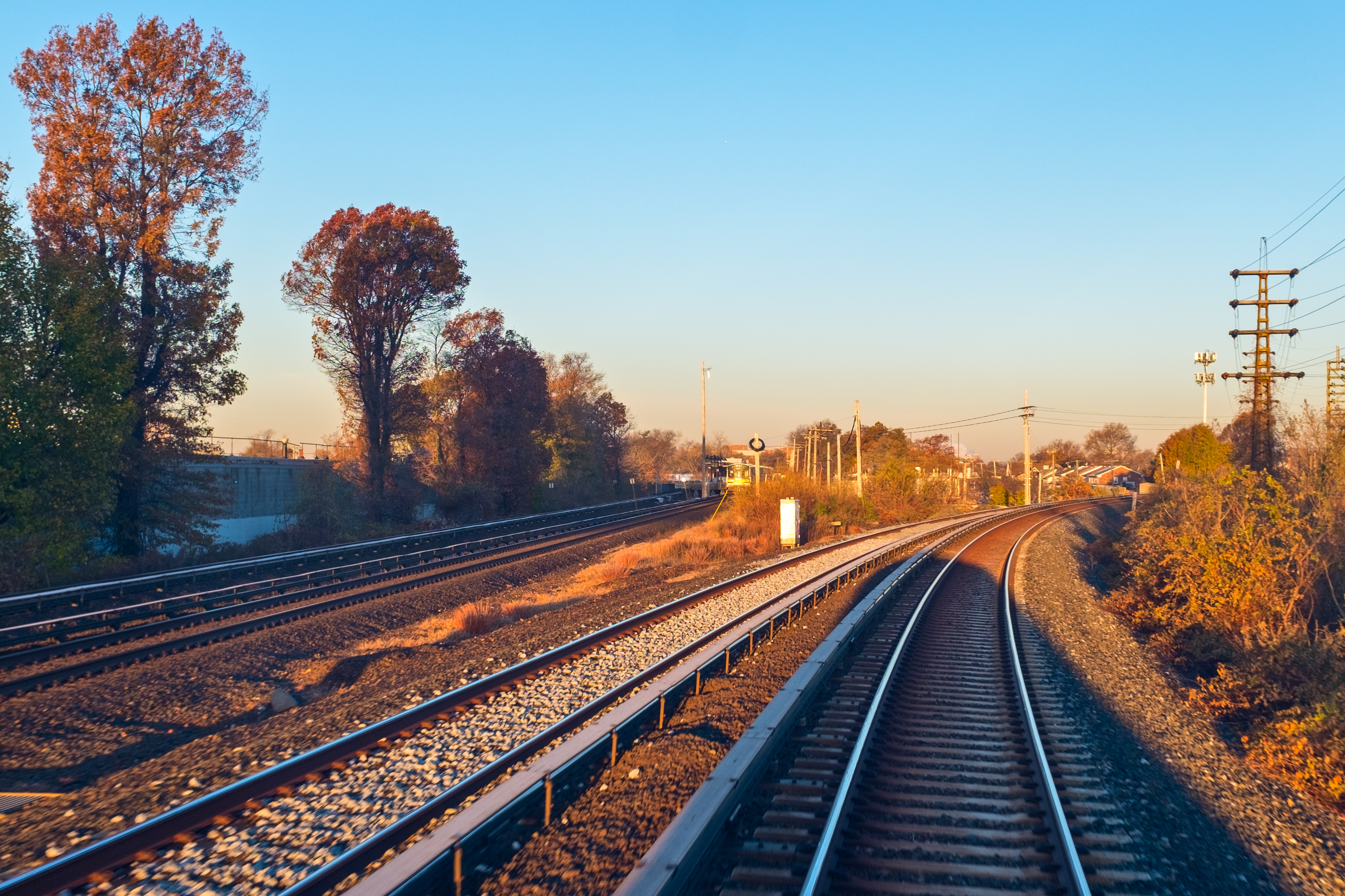 Approximate location of the Springfield Junction on the LIRR, where the Montauk & Babylon branches split.